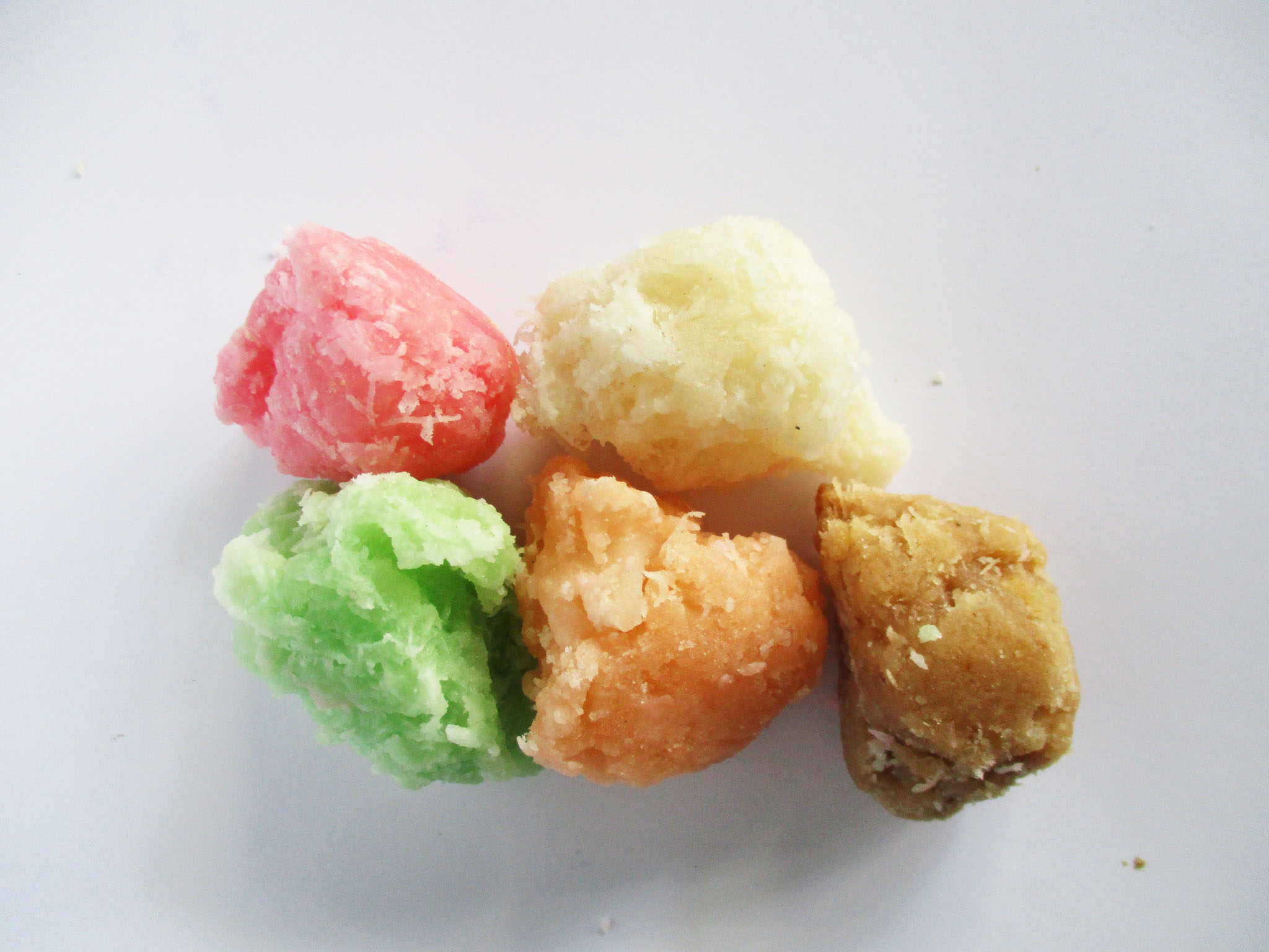 Geplak désa is traditional food from Bantul. It is made from cassava or yam and sugar.